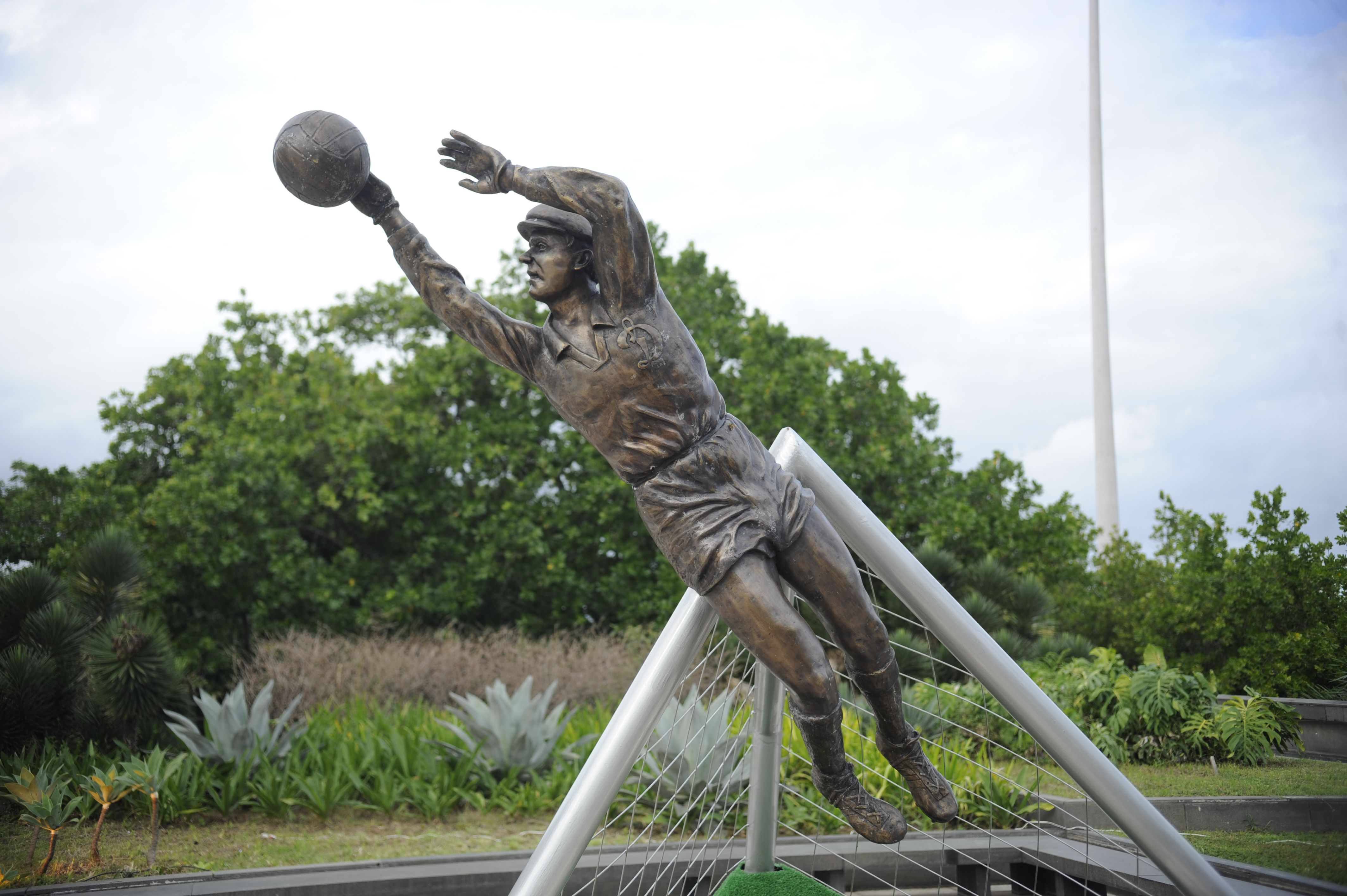 Opening the Russia House in Rio